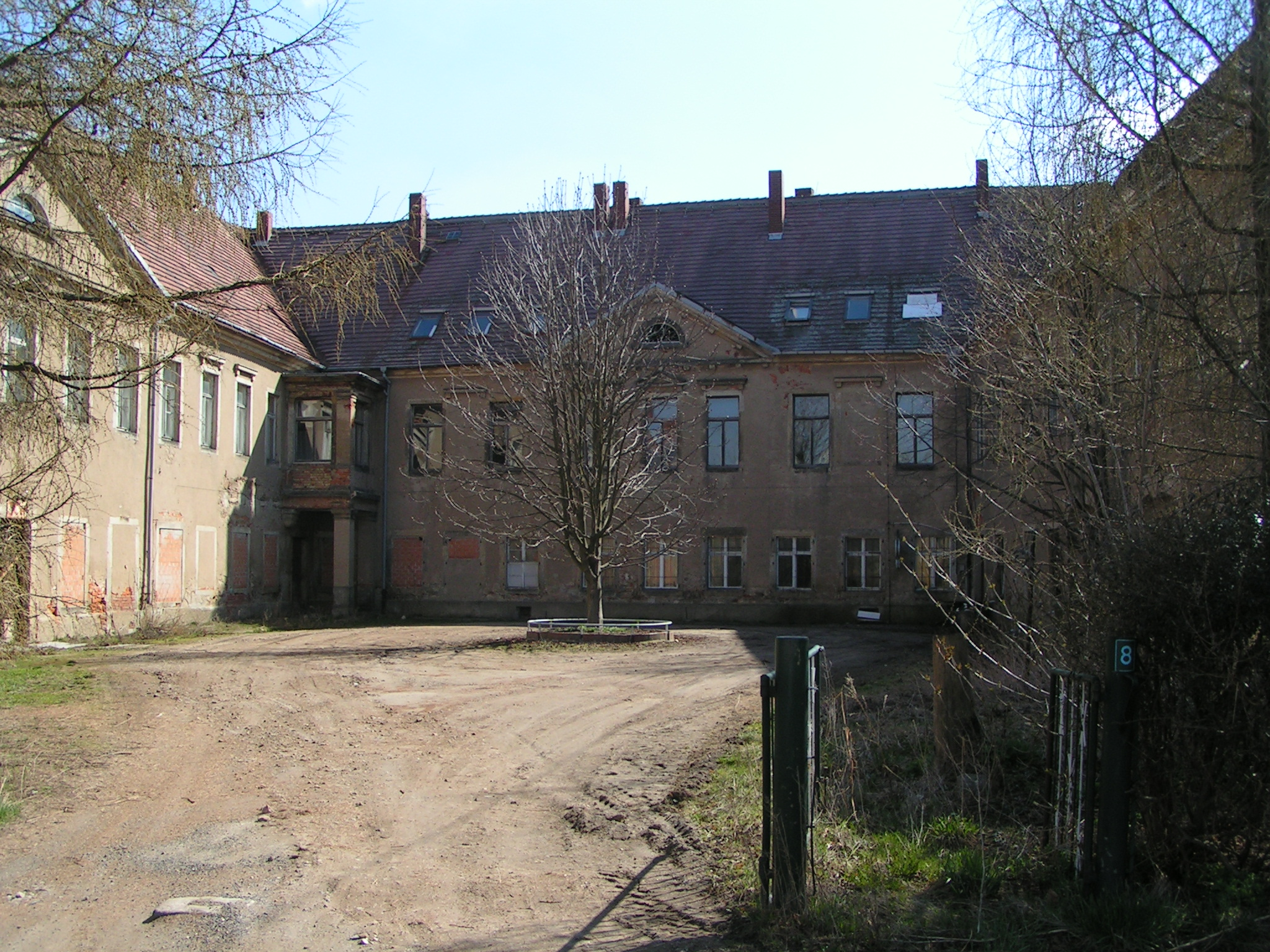 Castle Weistropp, Weistropp, Saxony, Germany